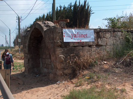 Miska, israel